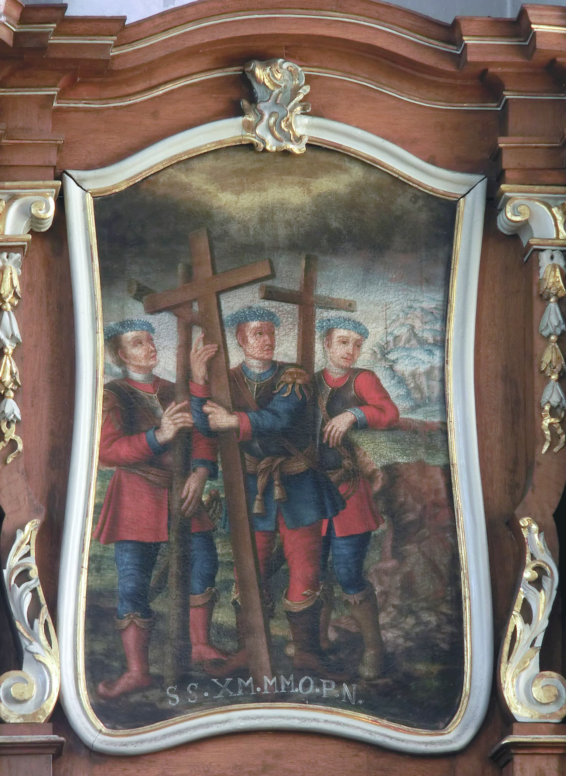 Painting '10,000 Martyrs' (1763), Altar of St. James the Greater, Church of St. Peter & Paul, Villmar (Germany), Artist unkonwn